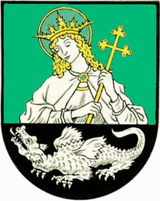 Coat of arms Gyhum, Wappen der Gemeinde Gyhum